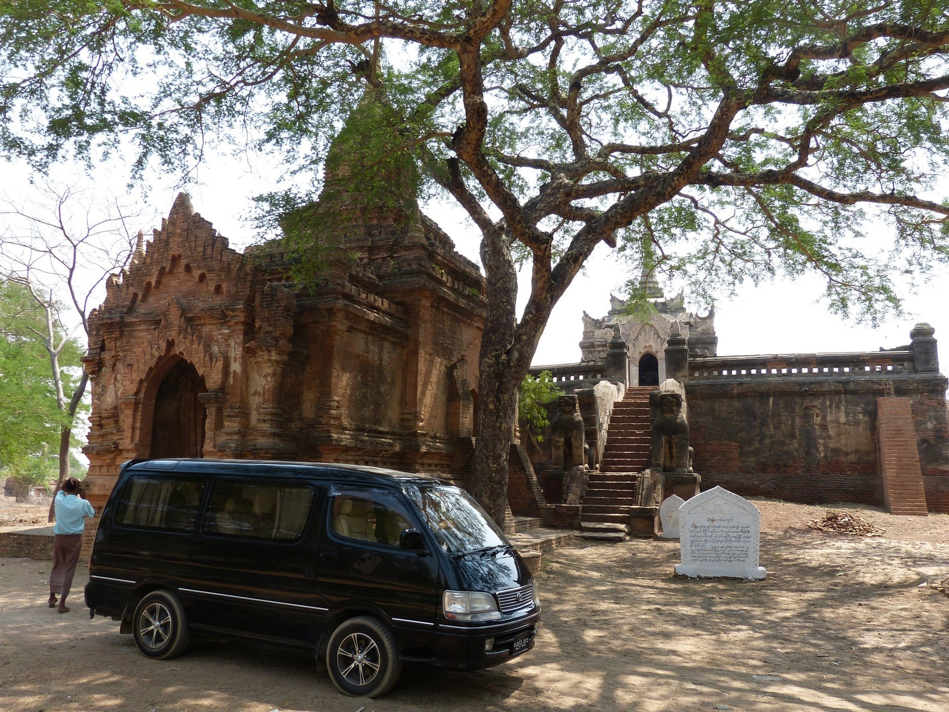 Mimalaung Kyaung Temple, Bagan